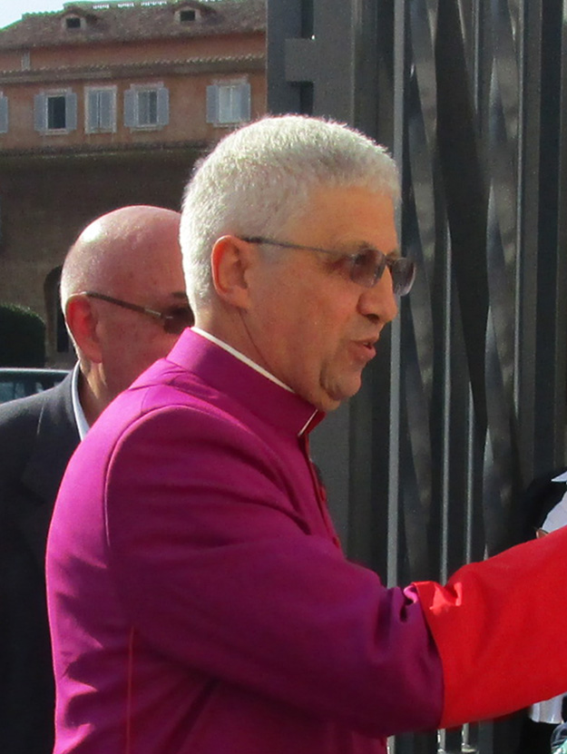 Bishop of Lodi Maurizio Malvestiti